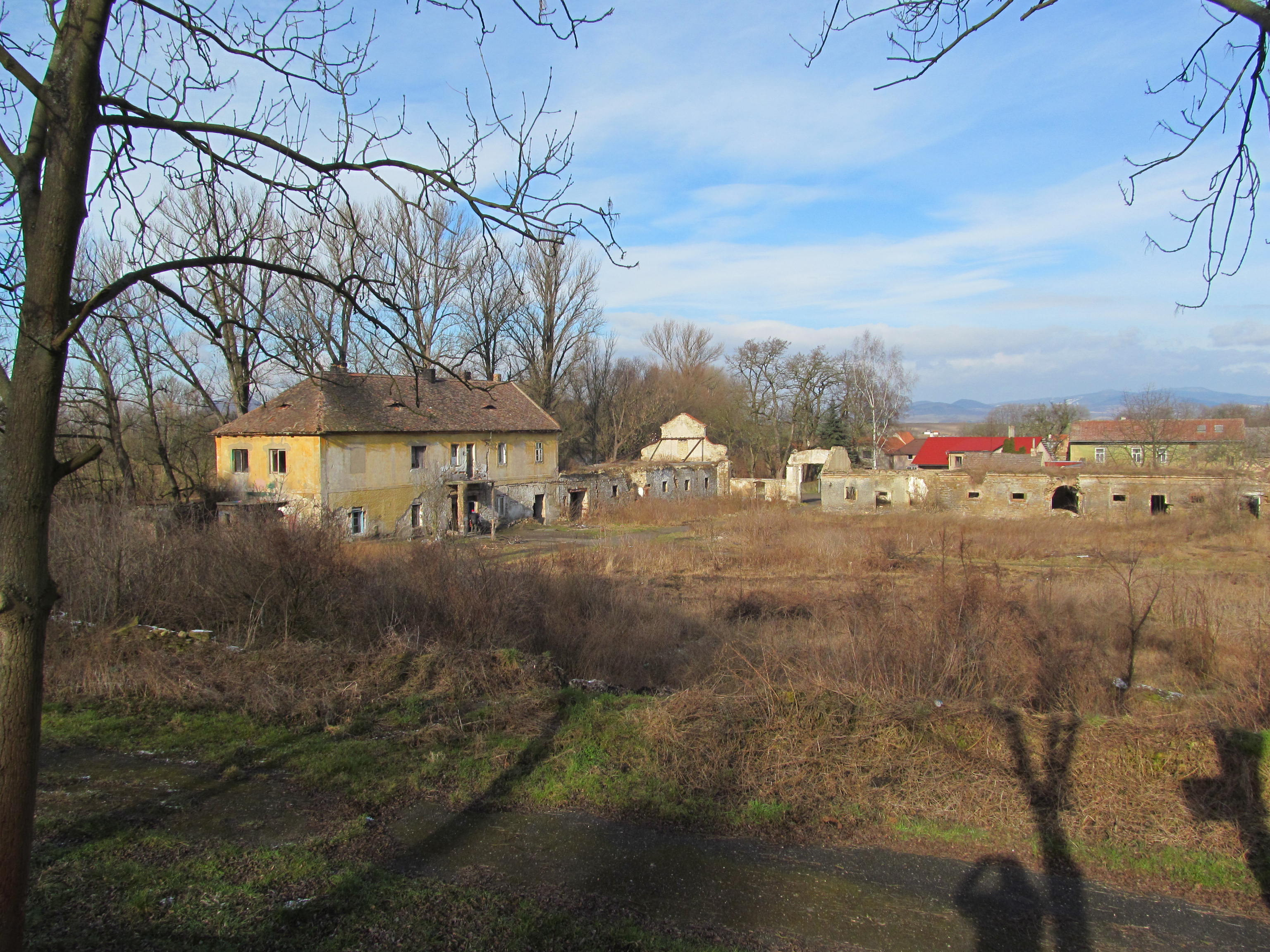 Farm No 1 in Kystra